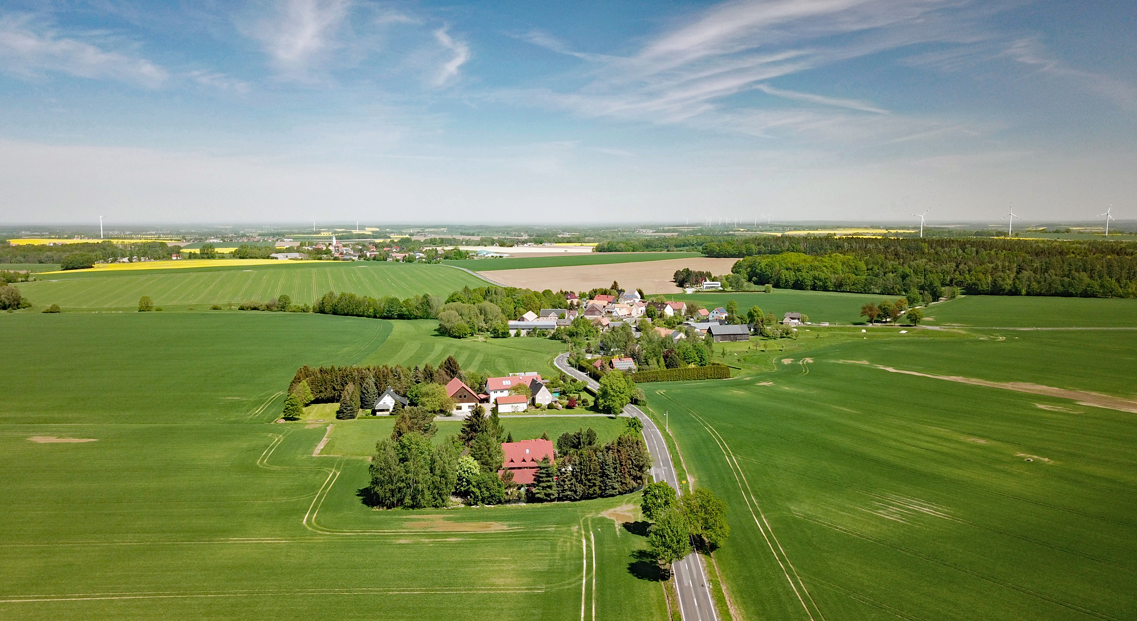 Taschendorf (Burkau, Saxony, Germany) Hornjoserbsce: Powětrowy wobraz Ledźborec pola Porchowa